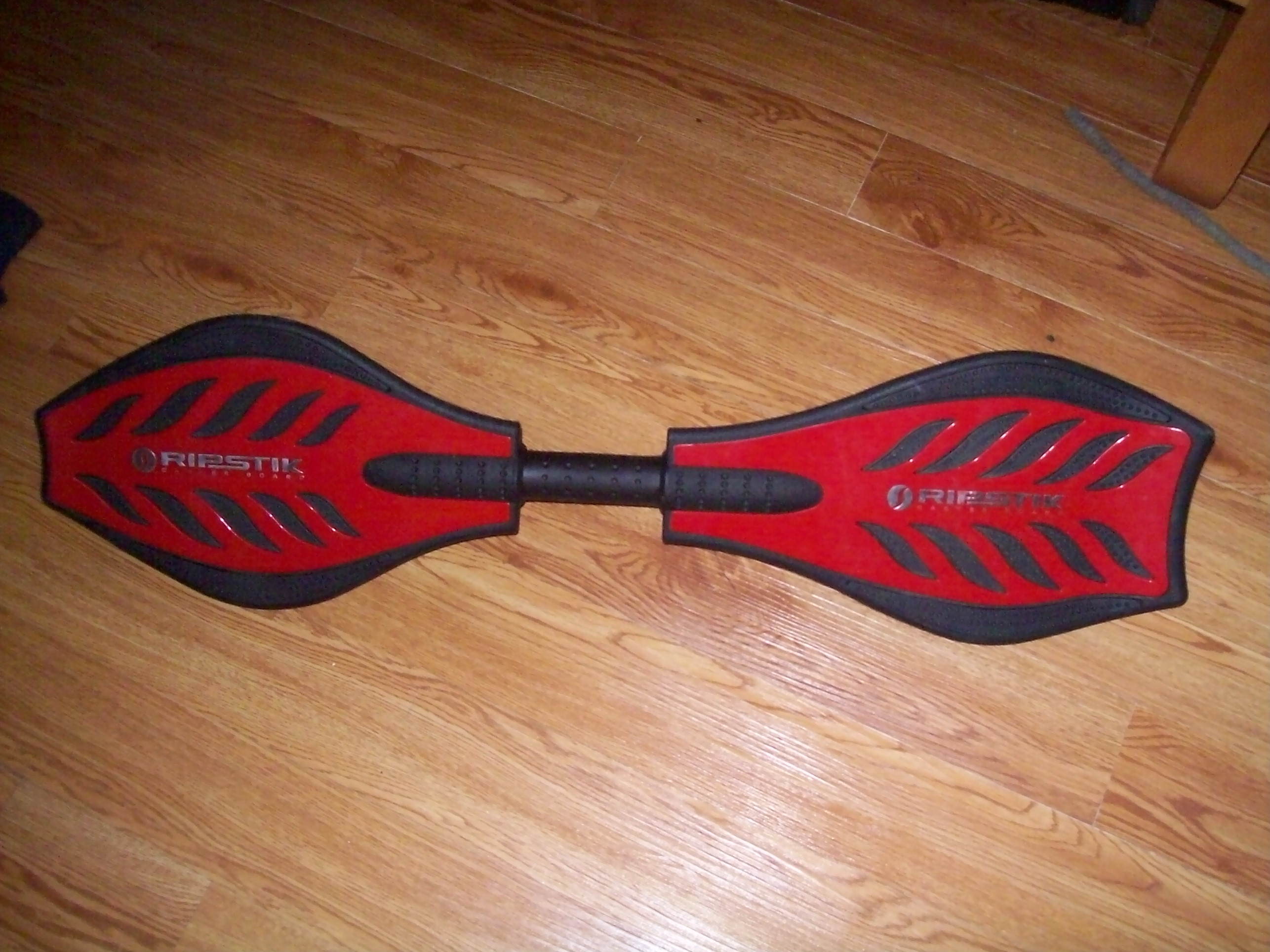 Ripstik coaster board